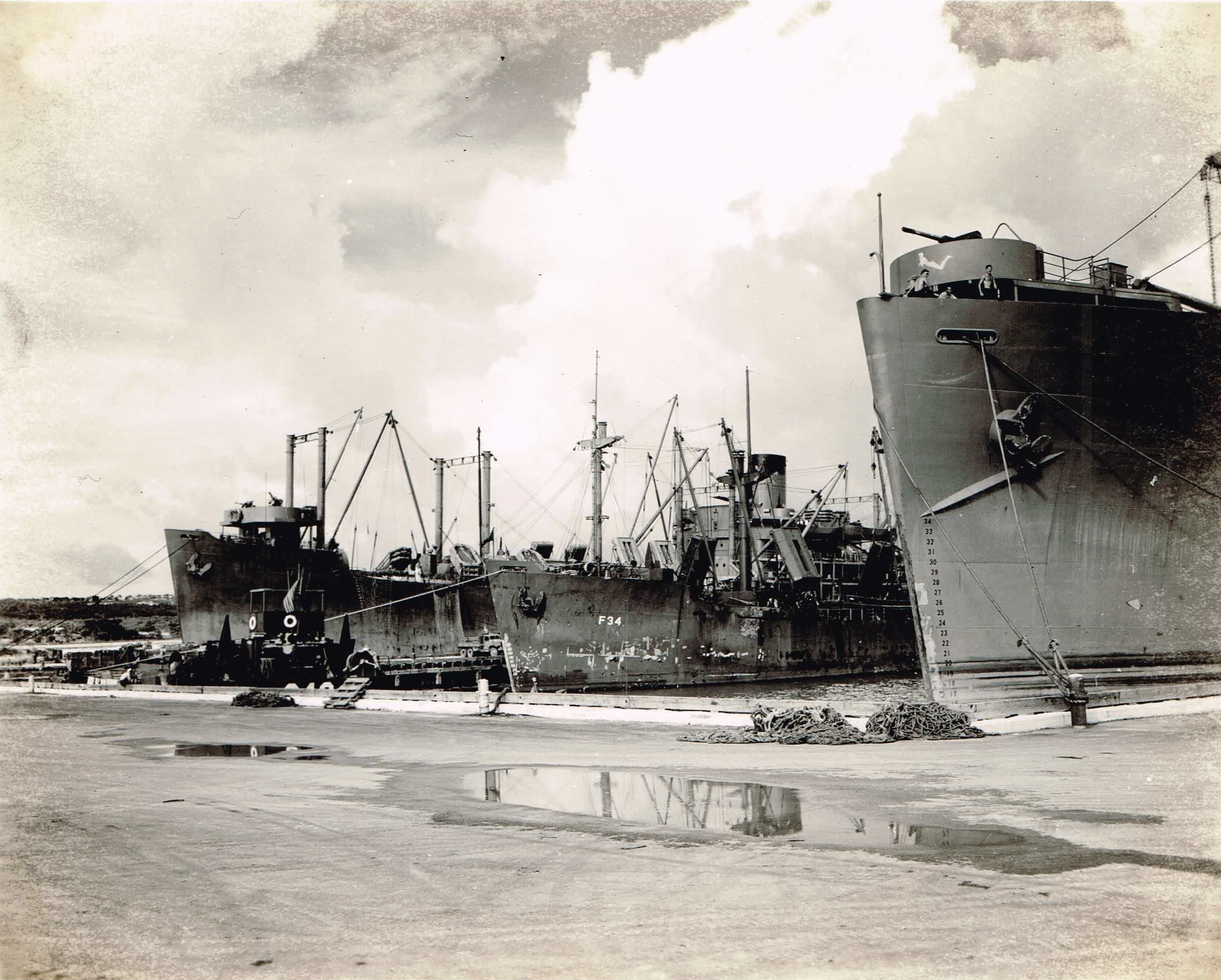 US Navy docked at Saipan; photo taken by my grandfather, George A. Groeschl